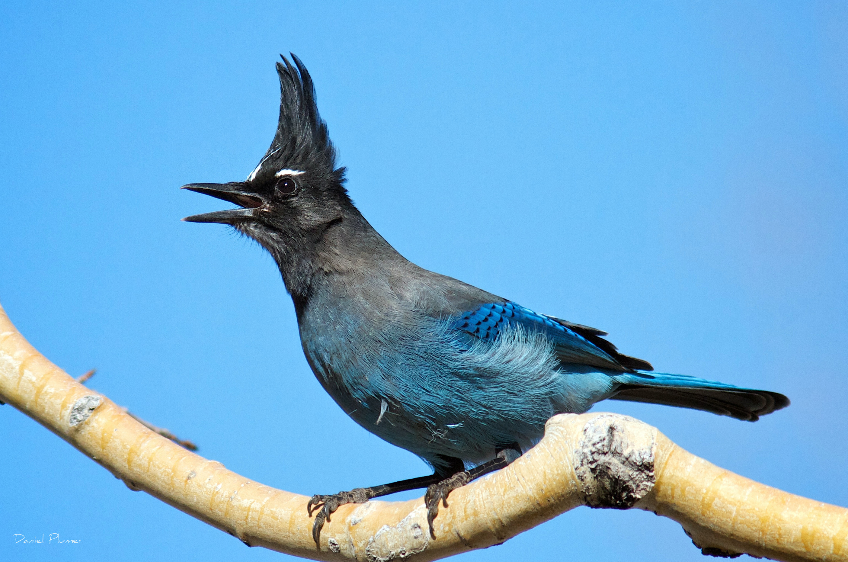 Captured on Mt. Lemmon